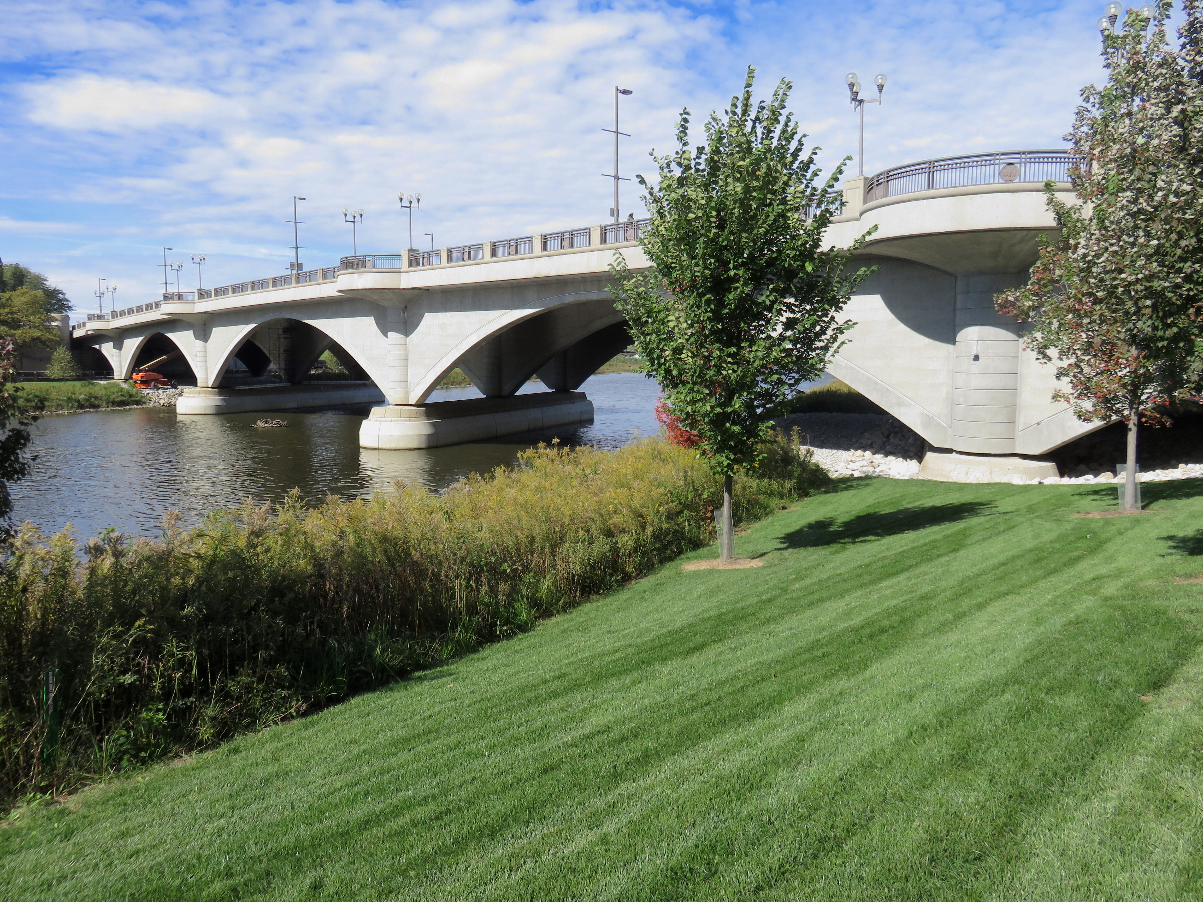 Broad Street Bridge in Columbus, Ohio in 2018